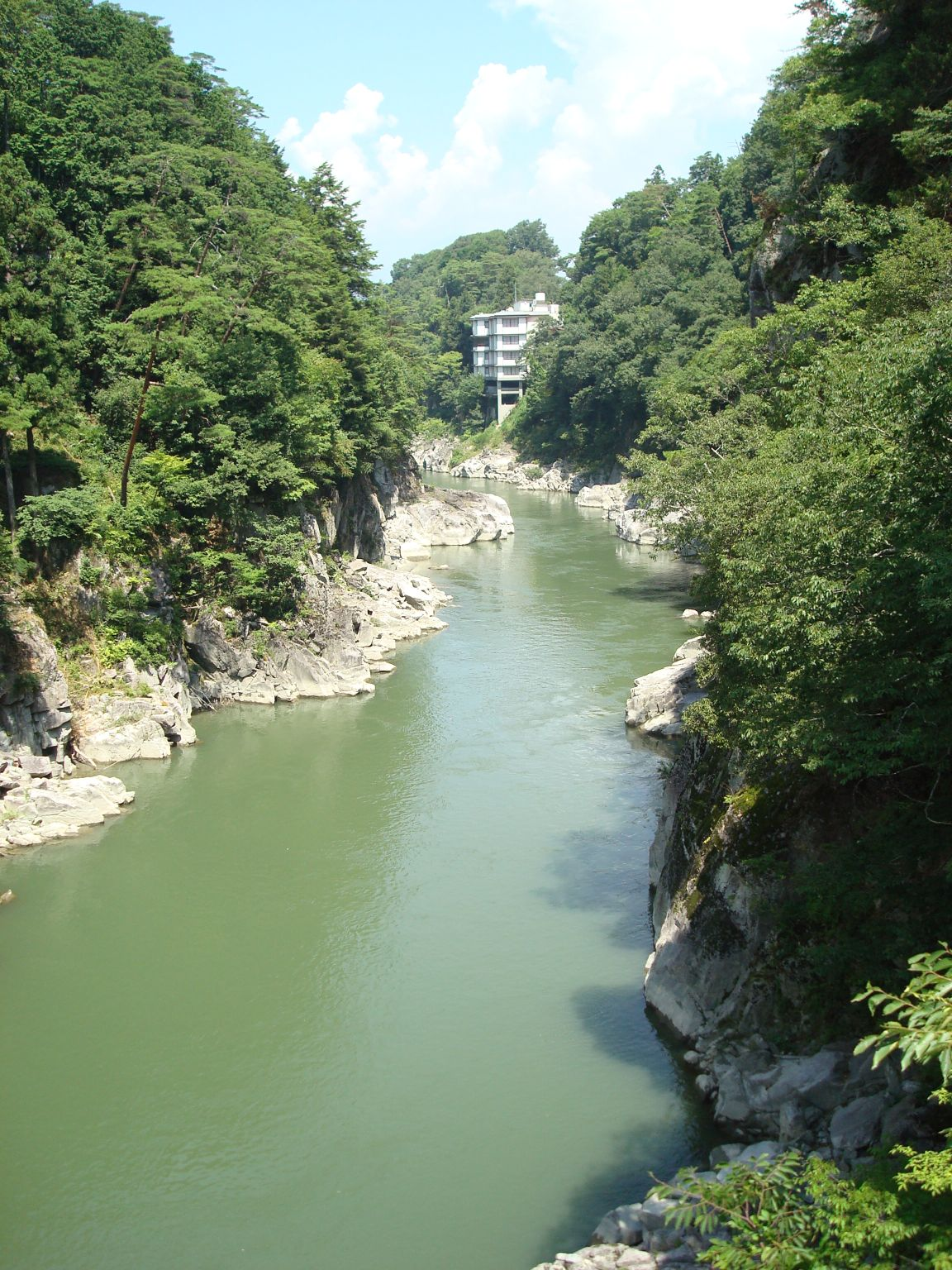 Tenryukyo, the ravine of Tenryu river at Iida, Nagano, Japan. Taken from Tsutsuji bridge.